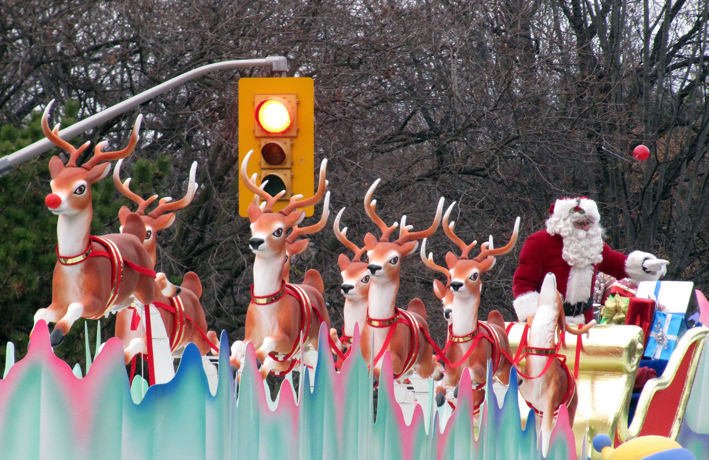 The Big Man on his sleigh at the 2010 Santa Claus Parade, Toronto.